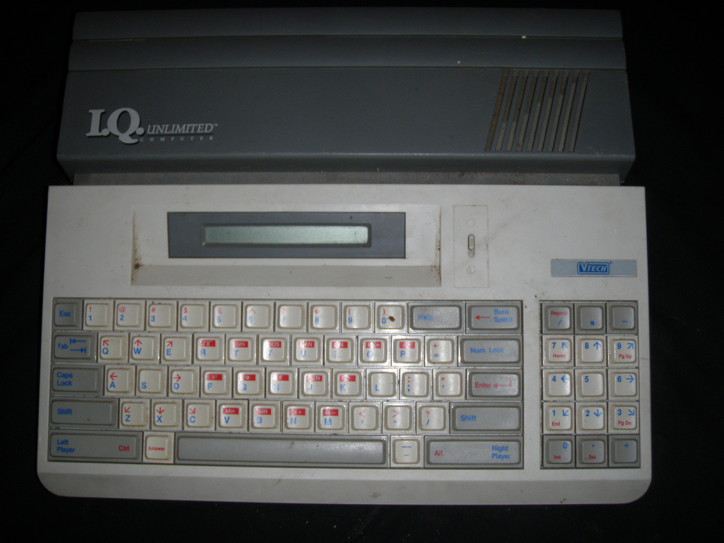 Vtech computer